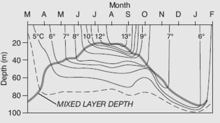 Own work